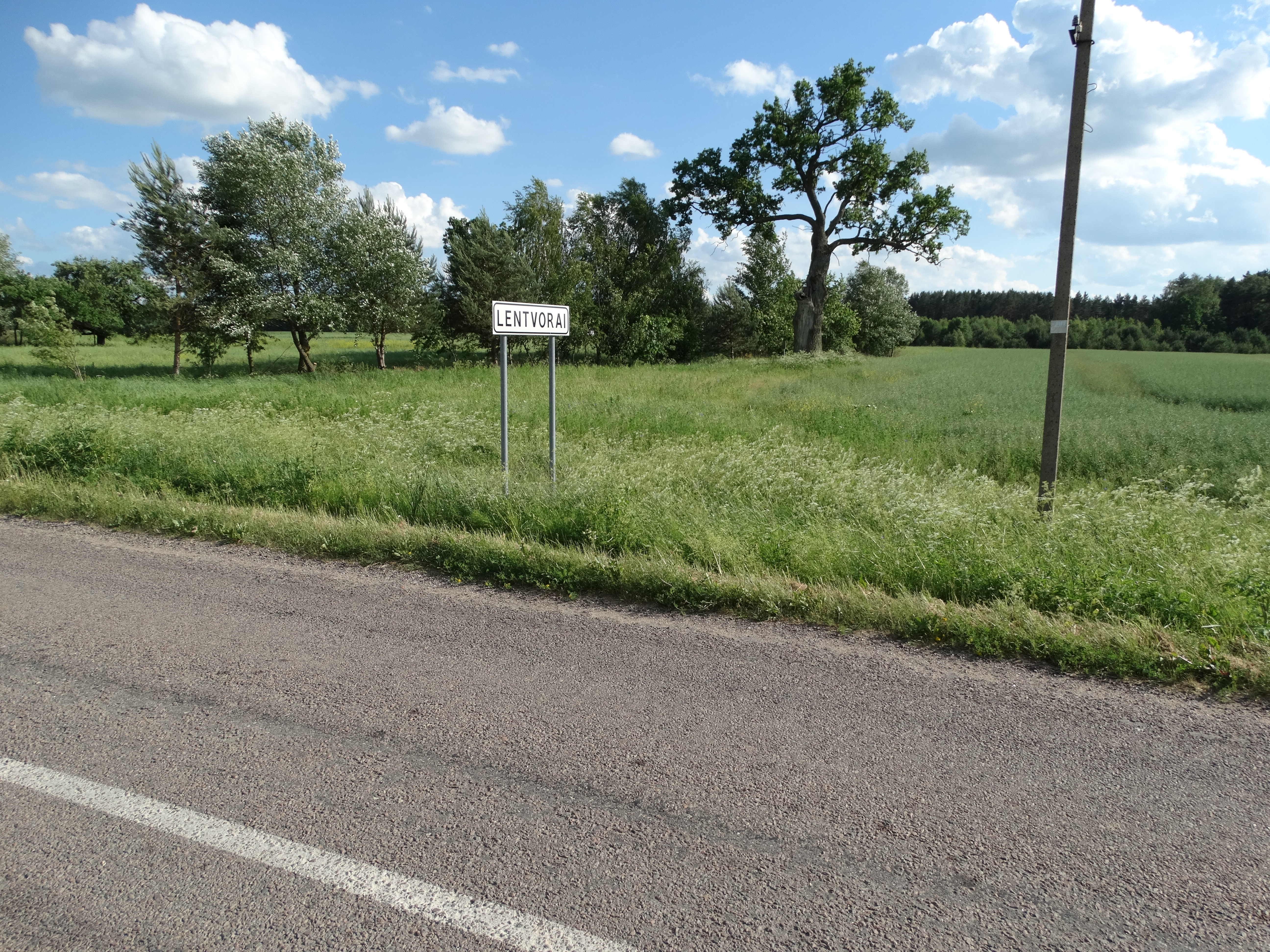 Oak by Lentvorai, Ukmergė district, Lithuania